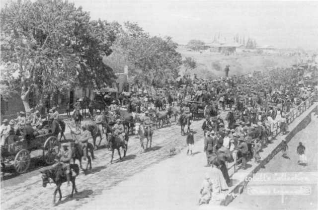 Commandant Lotter being brought into Graaff Reinet on 5 September 1901 after being captured by the Coldstream Guards after the Battle of Groenkloof